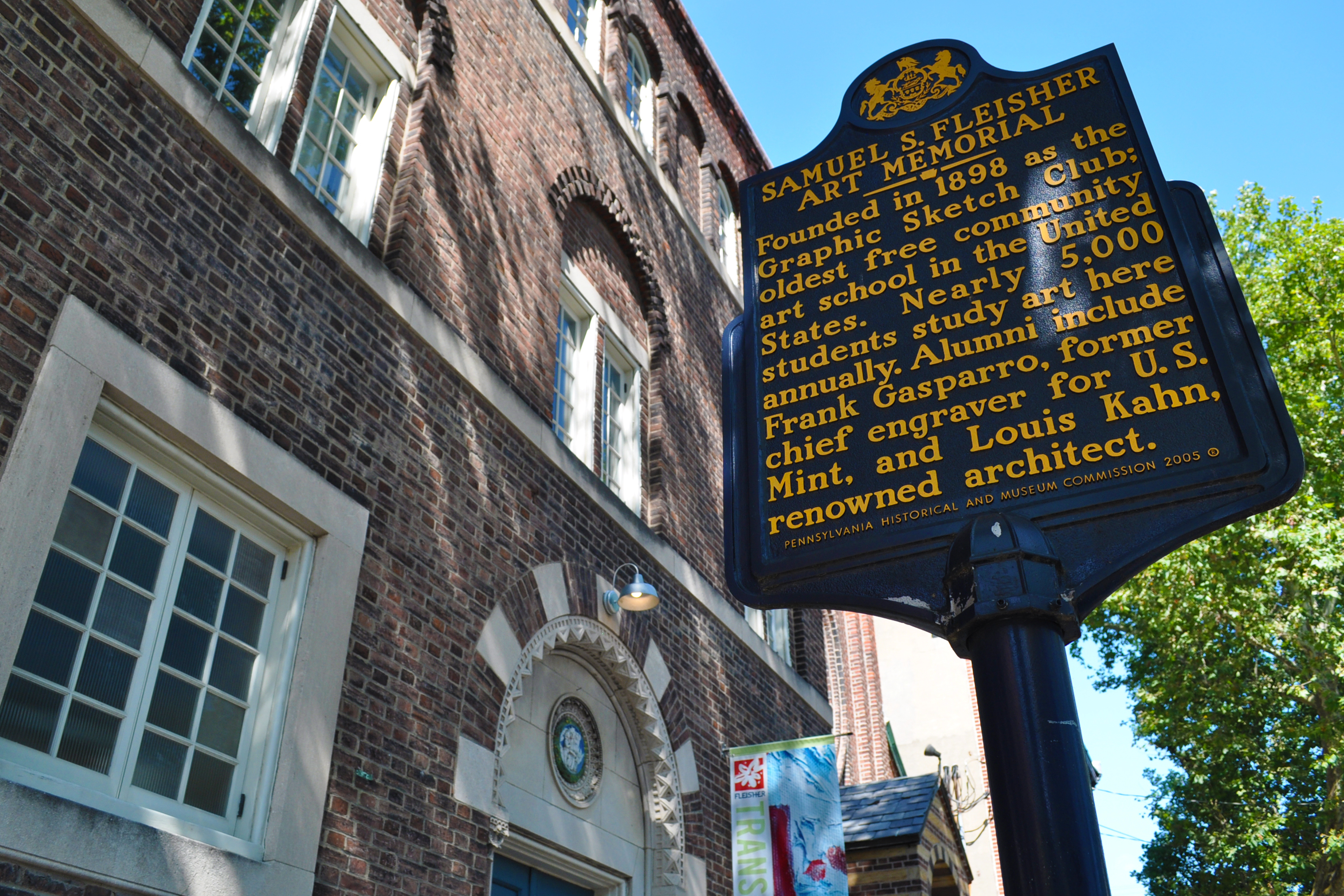 Samuel S Fleisher Art Memorial. Founded in 1898 as the Graphic Sketch Club; oldest free community art school in the United States. Nearly 5,000 students study art here annually. Alumni include Frank Gasparro, former chief engraver for U.S. Mint, and Louis Kahn, renowned architect. (Historical Marker at 719 Catharine St Philadelphia PA 19147 - PA Historical & Museum Commission 2005)